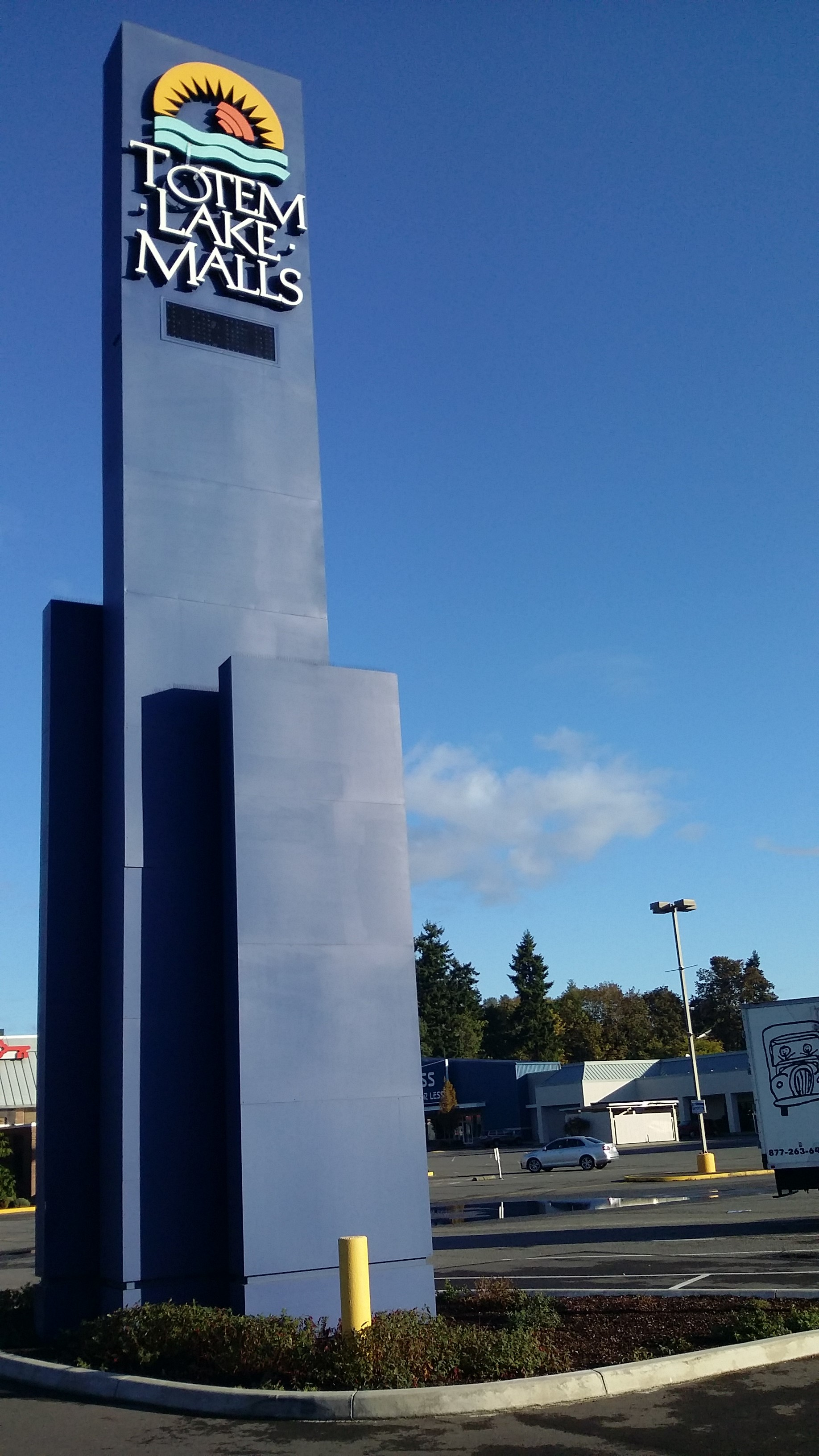 The time-and-temperature sign tower at Totem Lake Mall, Kirkland, Washington